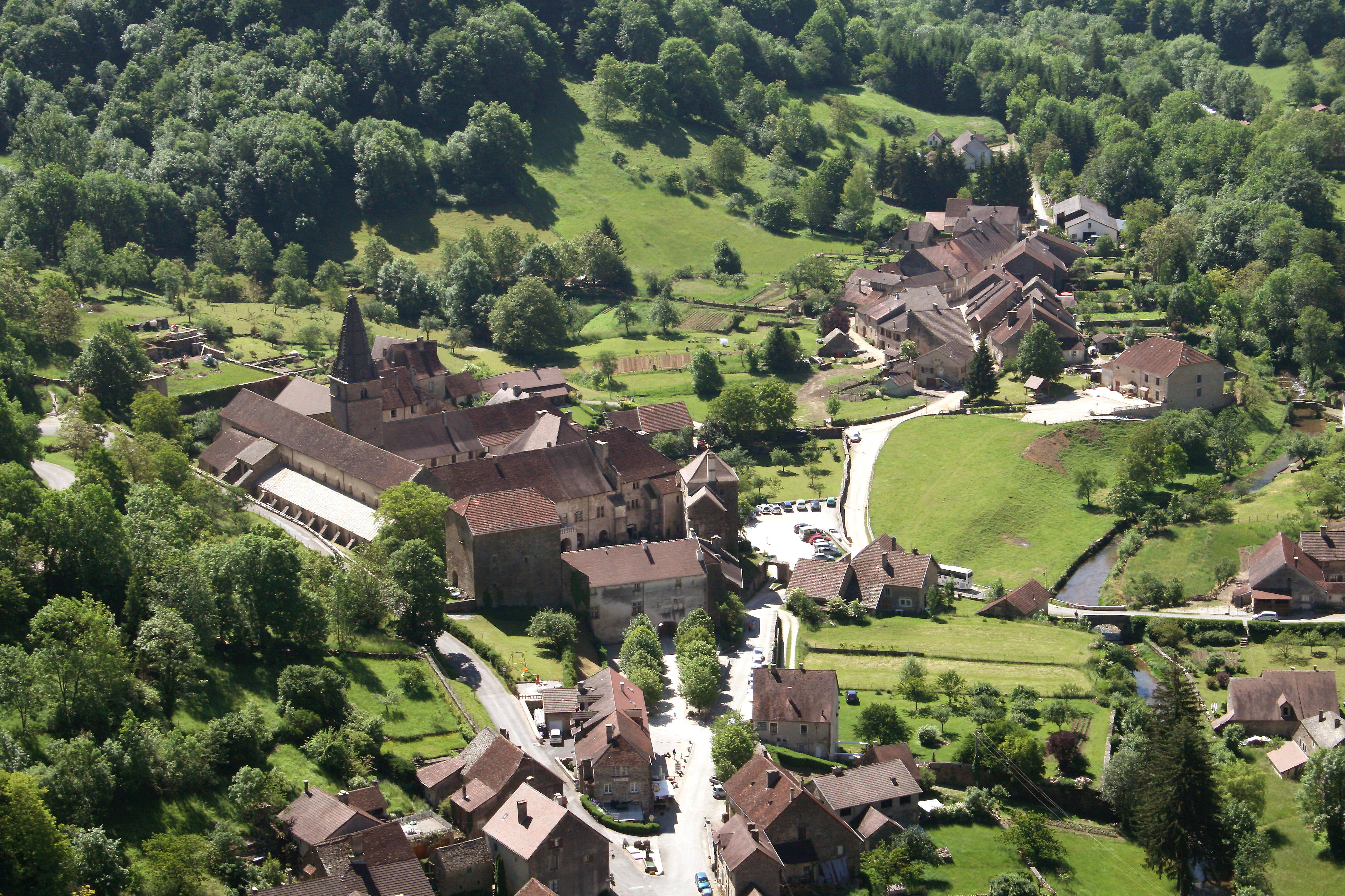 Baume-les-Messieurs (France), the village and the former Baume Abbey.